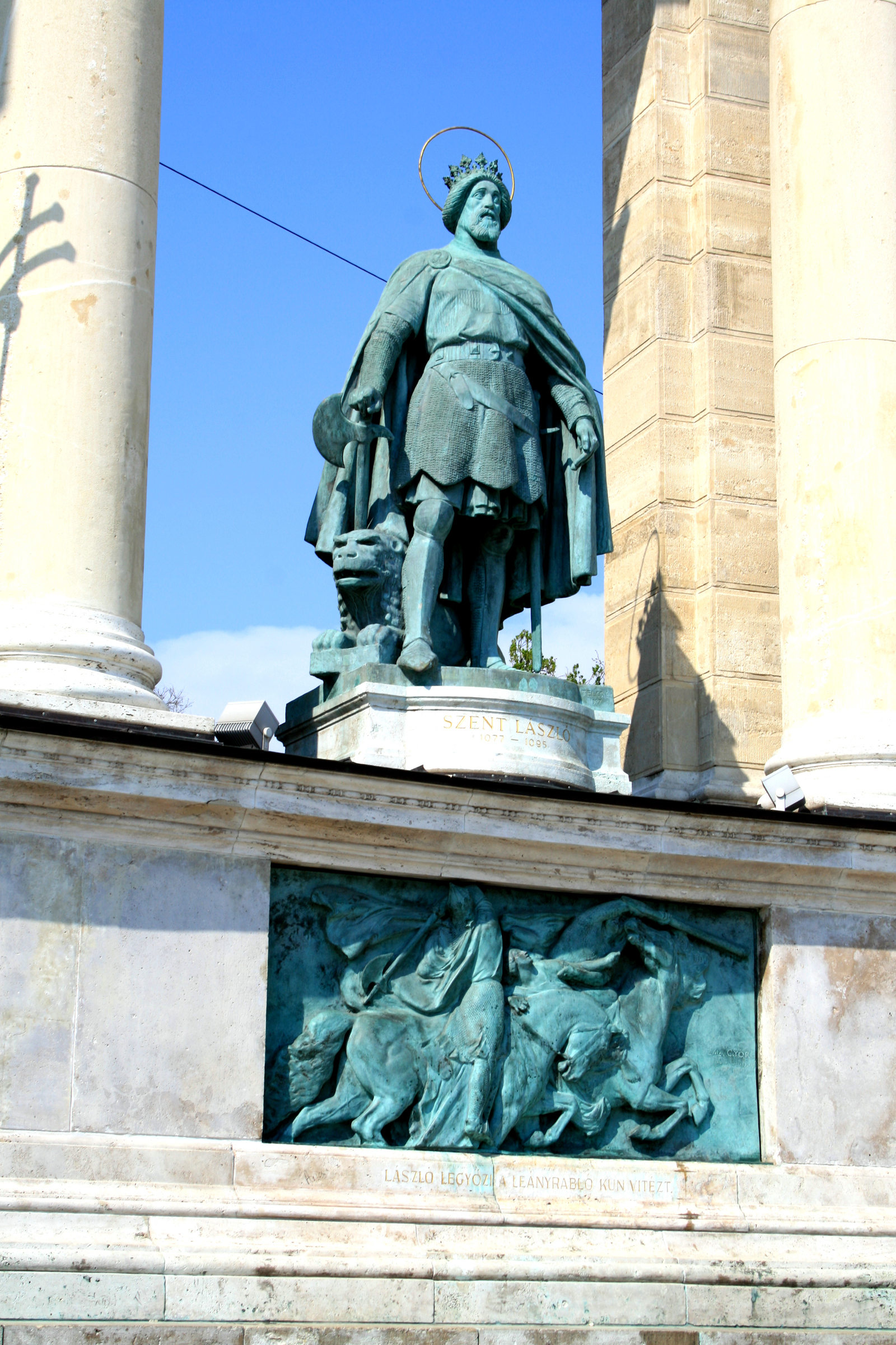 Statue of Ladislaus I of Hungary - Ladislaus I of Hungary, Millenium Monument on Heroes' square, Budapest, Budapest, Hungary